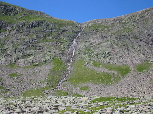 Falls of Dee, Braeriach. Coire Dee/An Garbh Choire